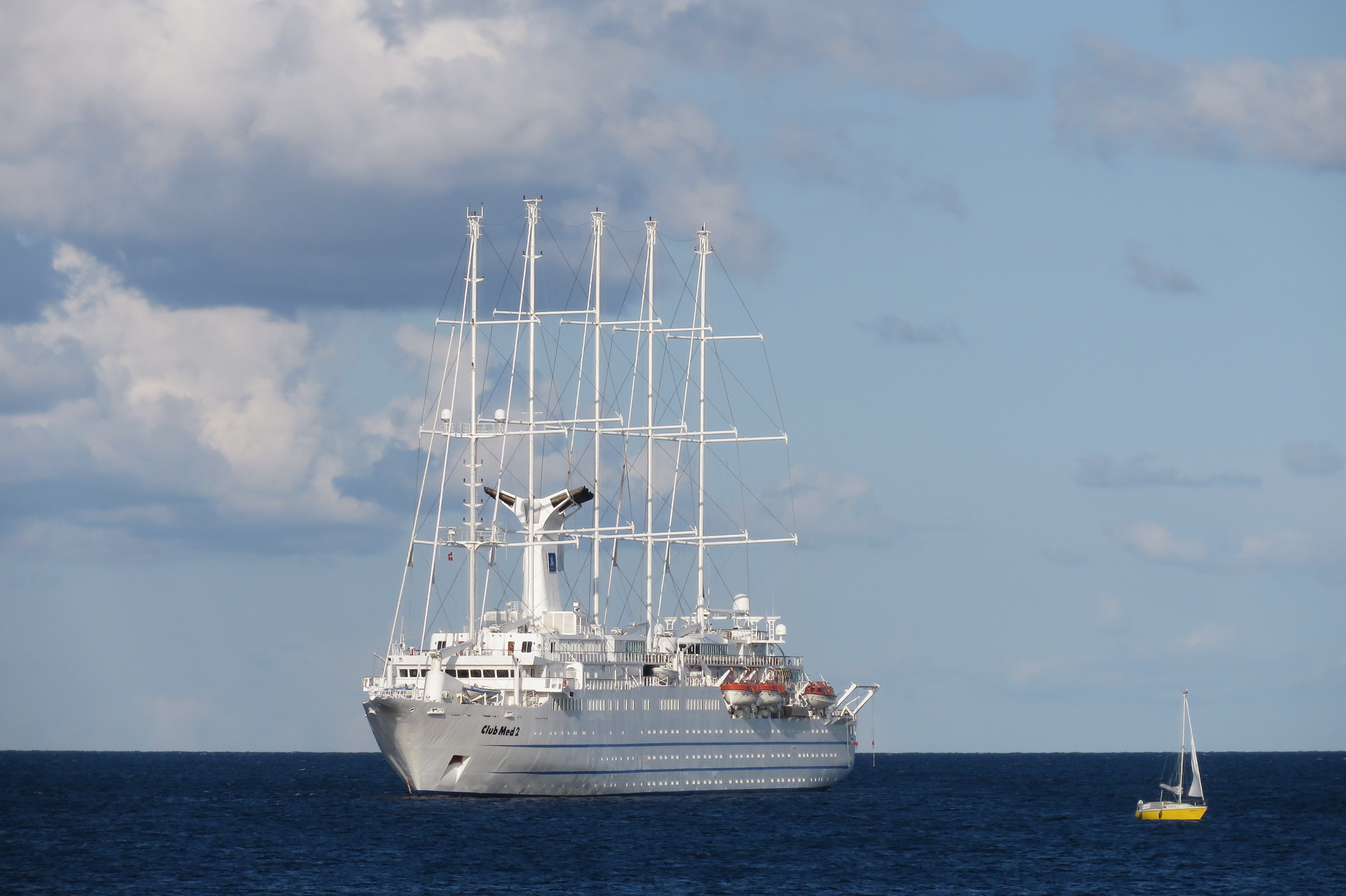 Club Med 2 at Svaneke, Bornholm